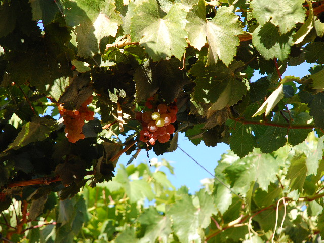 Chilean pisco grapes at Vicuña (Chile)